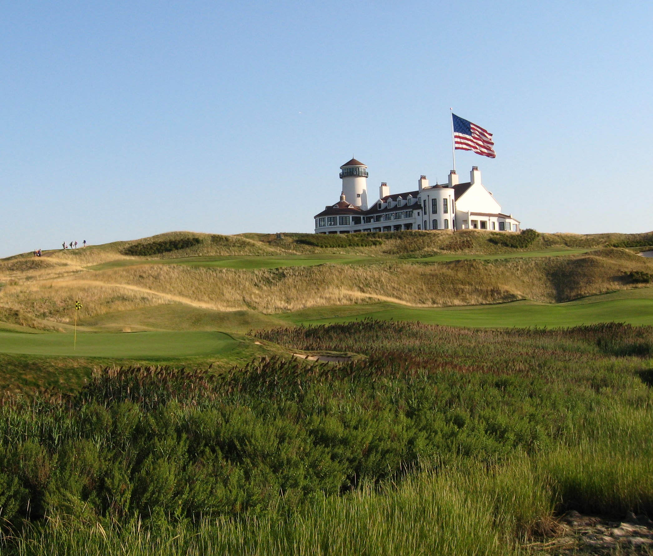 Looking south and up from waterside walkway at Bayonne Golf Club clubhouse on Constable Hook, New Jersey on a sunny late afternoon. Note golfers skylined on the left.